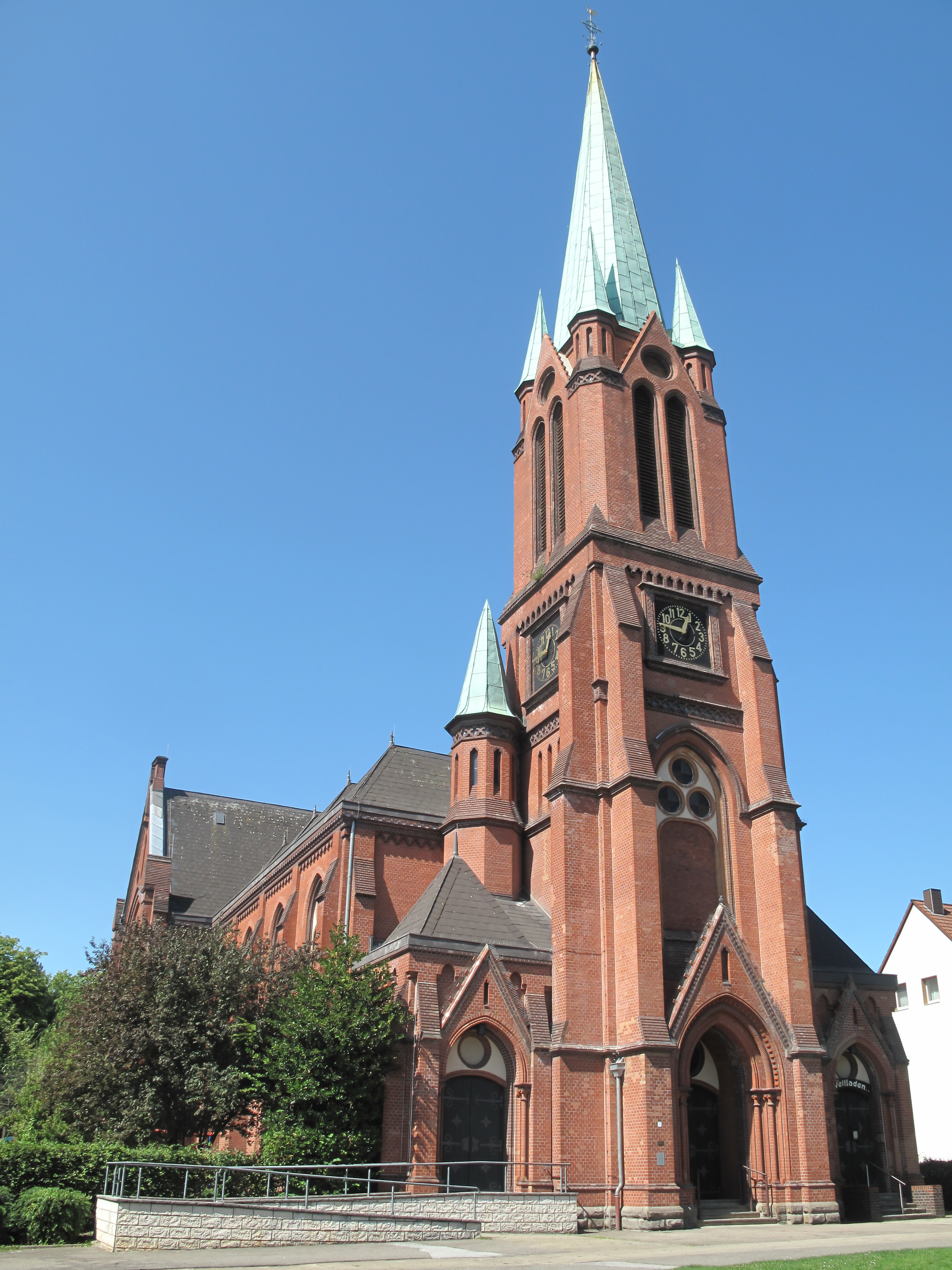 Essen-Altenessen, church: Weltladen Alte Kirche